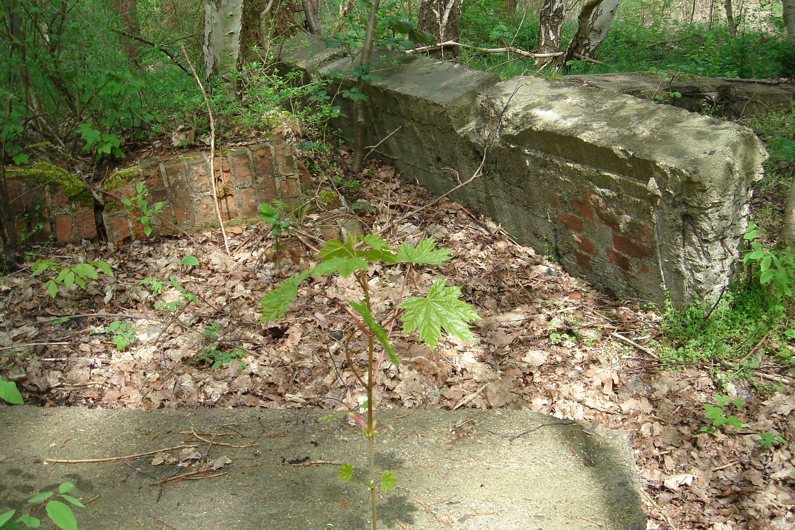 KZ Stöcken remains. The KZ Stöcken was a subcamp of KZ Neuengamme.